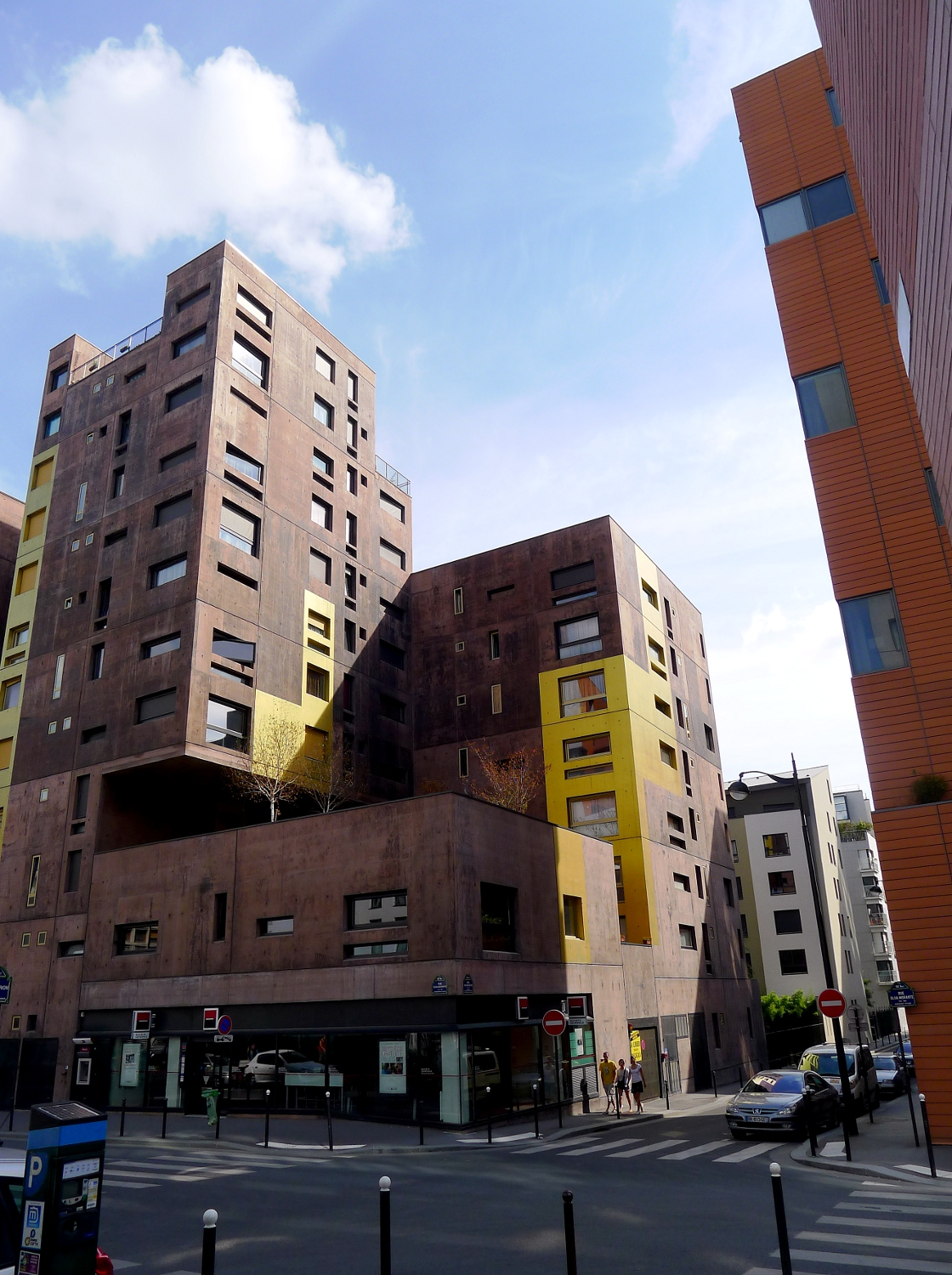 Hélène Brion et Elsa Morante streets - Paris